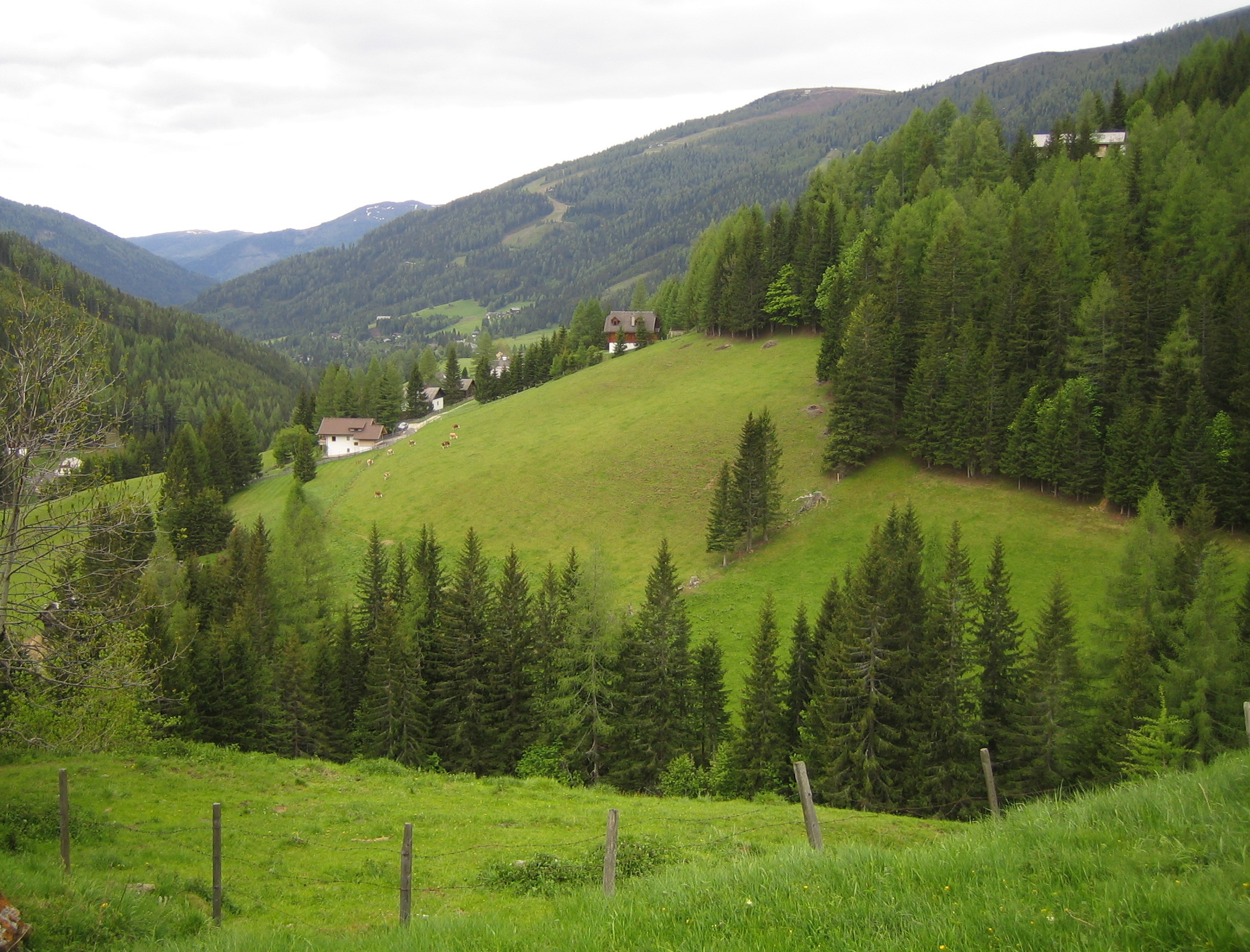 High valley of Sankt Oswald (view from north), Bad Kleinkirchheim, Carinthia, Austria